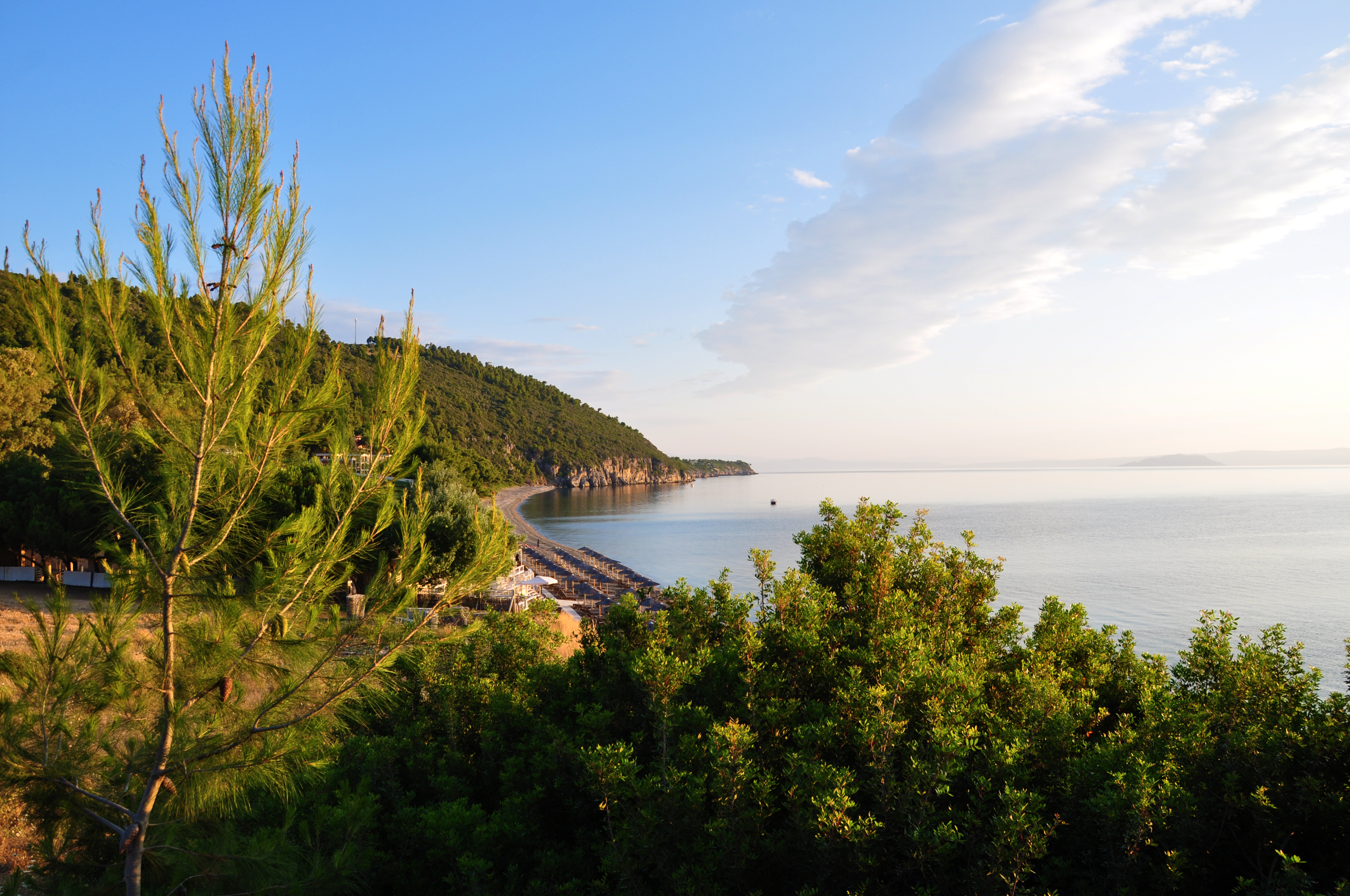 paliouri cape-kanistro-natura 2000-xina This is a photography of Natura 2000 protected area with ID GR1270008